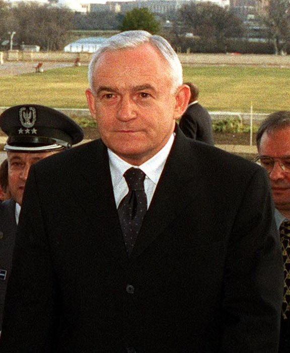 (Original text: Secretary of Defense Donald H. Rumsfeld (center) escorts Prime Minister Leszek Miller (right), of Poland, into the Pentagon on Jan. 11, 2002. The two leaders will meet to discuss defense issues of mutual interest. DoD photo by Helene C. Stikkel. (Released) 020111-D-2987S-003)